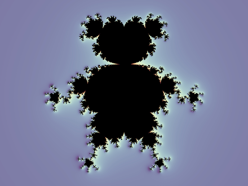 The Mandelbrot set for